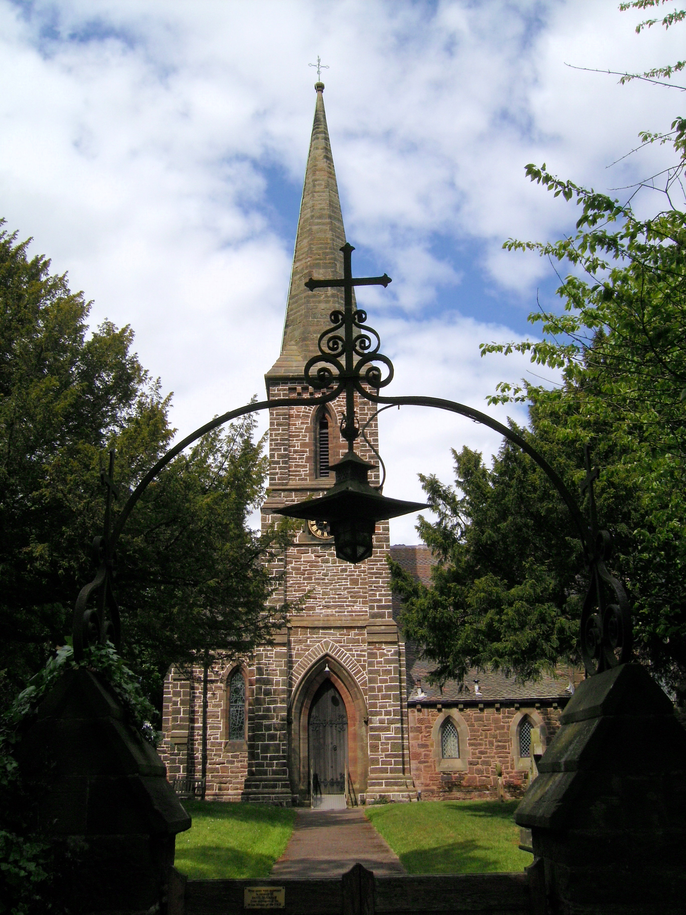 Southwest tower and spire of St John the Evengelist's parish church, Bishops Wood, Brewood, Staffordshire, seen from the south